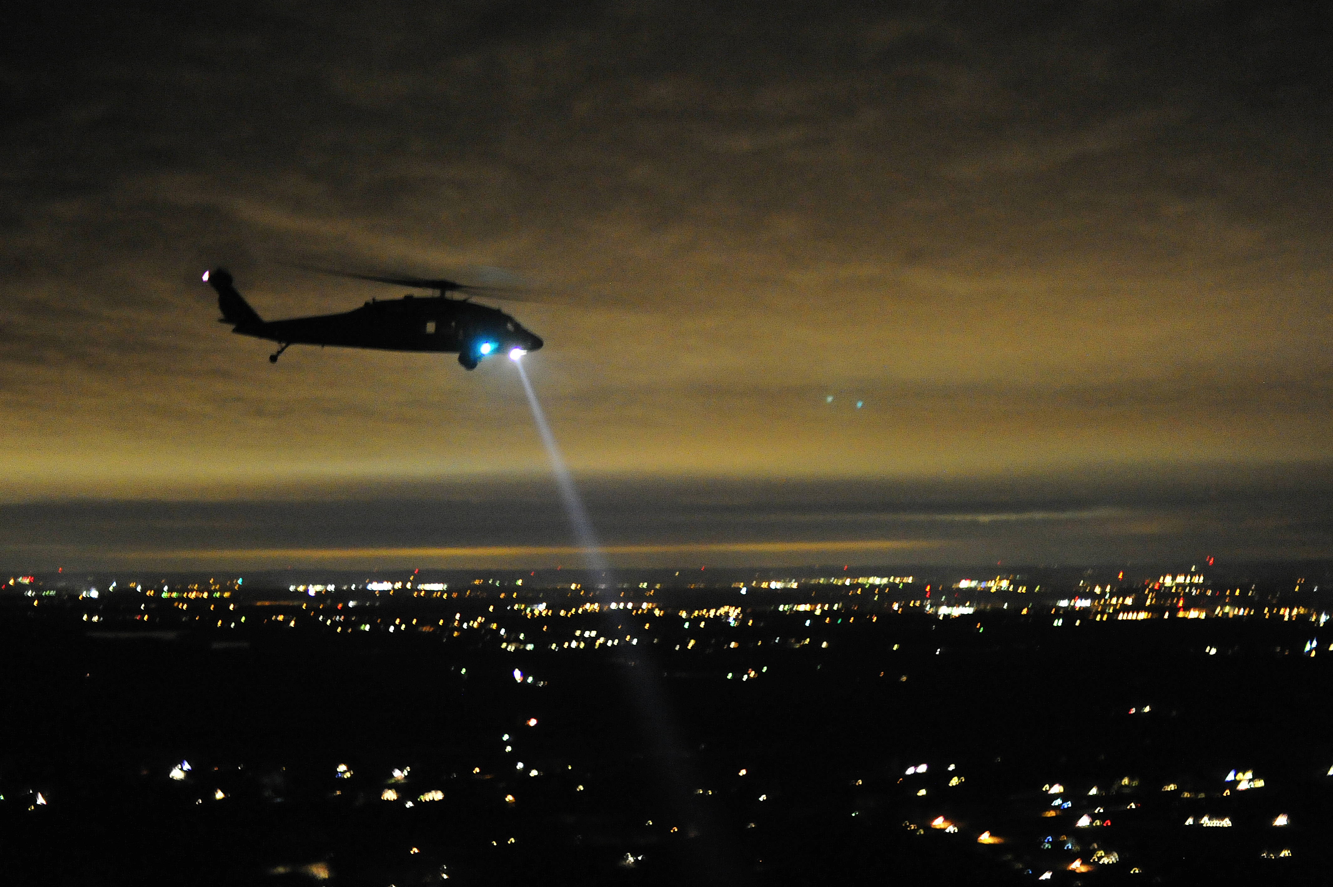 A UH-60 Blackhawk helicopter assigned to Task Force Guardian, flies over areas along the storm-damaged coast of New York on a mission from Joint Base McGuire-Dix-Lakehurst, N.J. to Floyd Bennett Field, NY, Nov. 4, 2012. The helicopter is assisting with the movement of the National Urban Search and Rescue task force teams from JB MDL to storm damaged areas in New York and New Jersey. (U.S. Air Force photo by Tech. Sgt. Parker Gyokeres/Released)